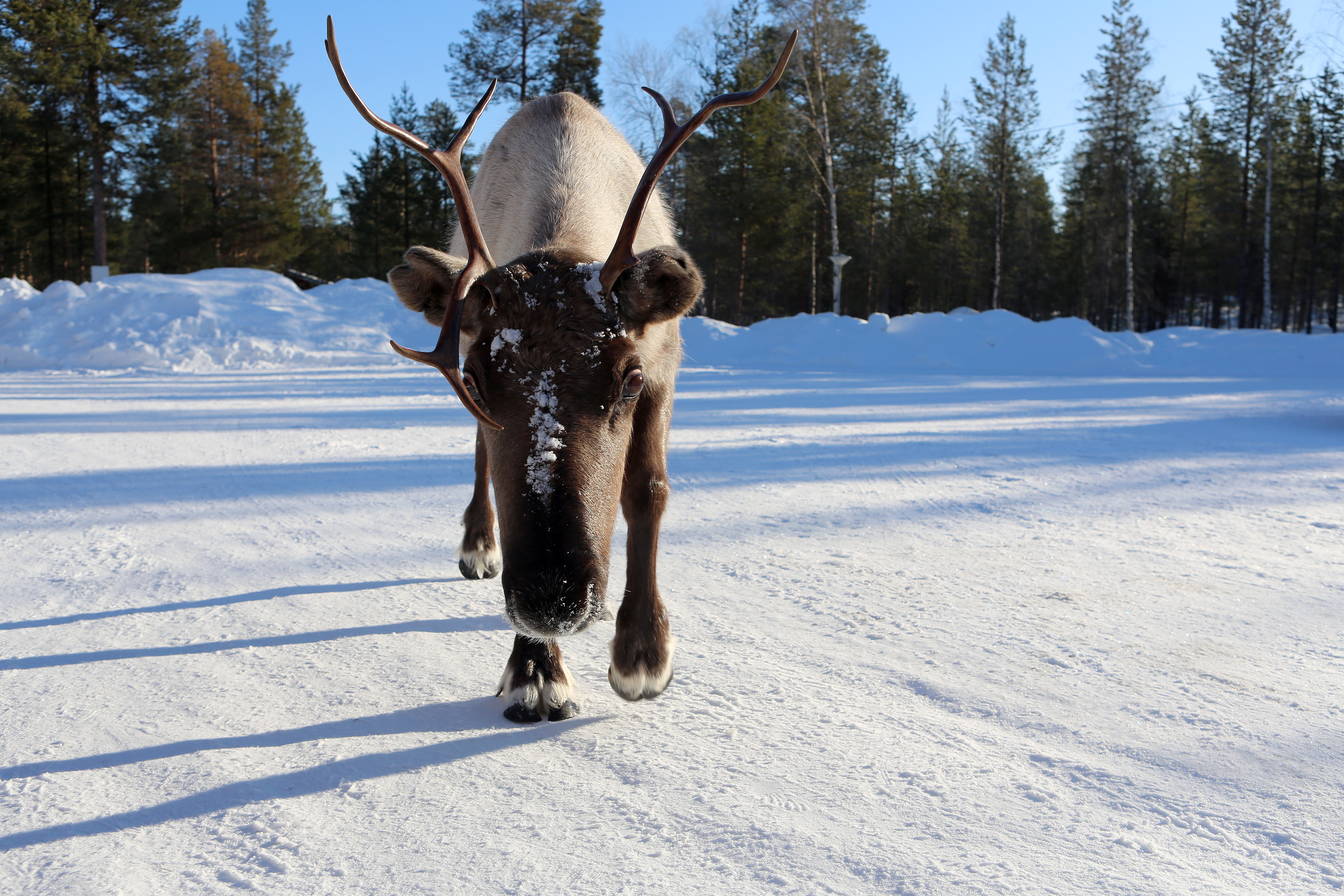 Reindeer near Ukonjärvi/Inarijärvi in Inari, Finland.